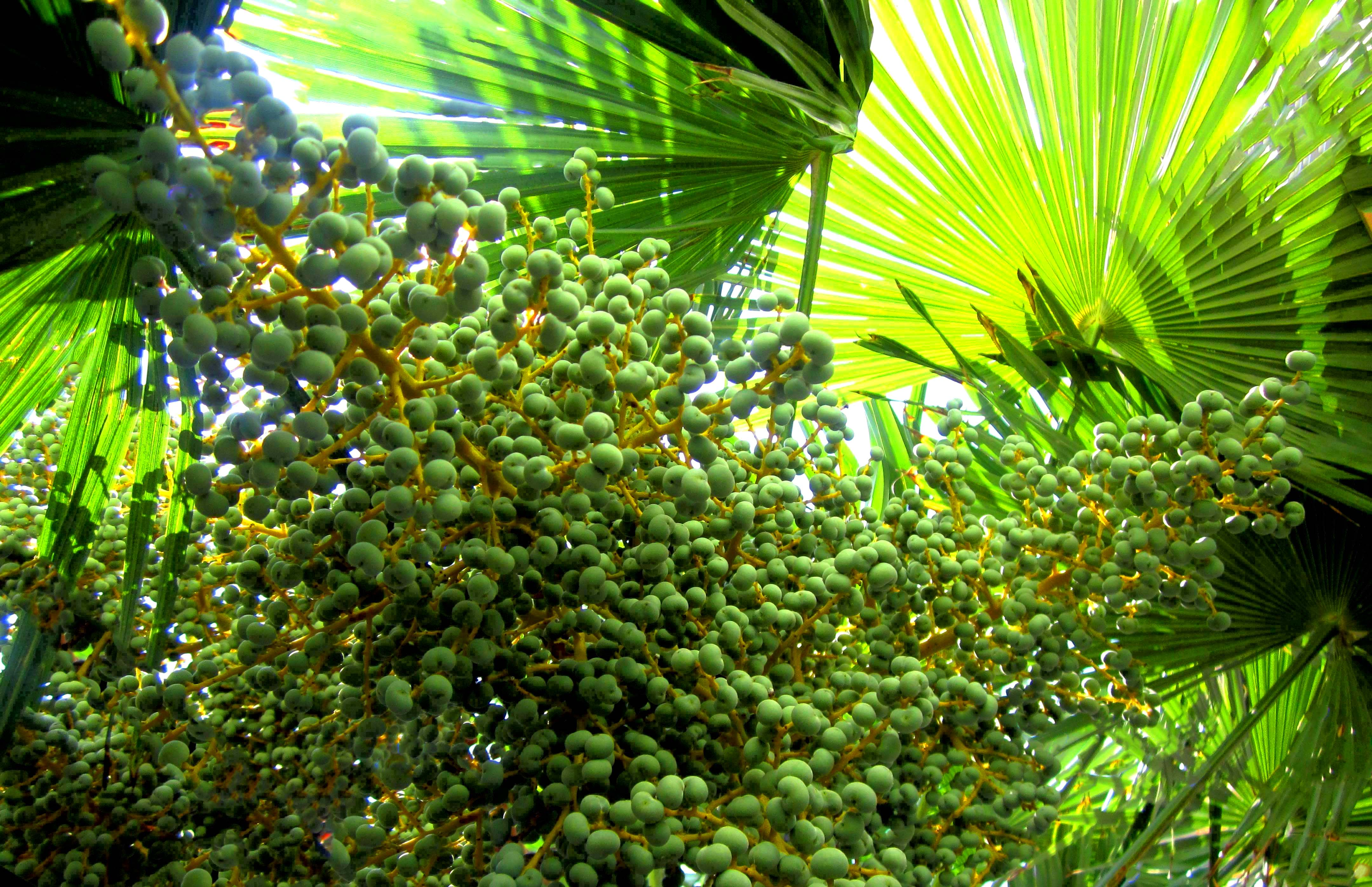 Palm fruit on the palm tree in the house garden